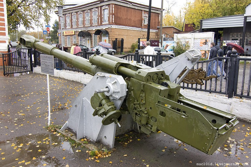 152-mm howitzer D-22 (GRAU index - 2A33) for armament of self-propelled howitzer M1973 (2S3 Akatsiya). Motovilikha Plants museum in Perm Russia.